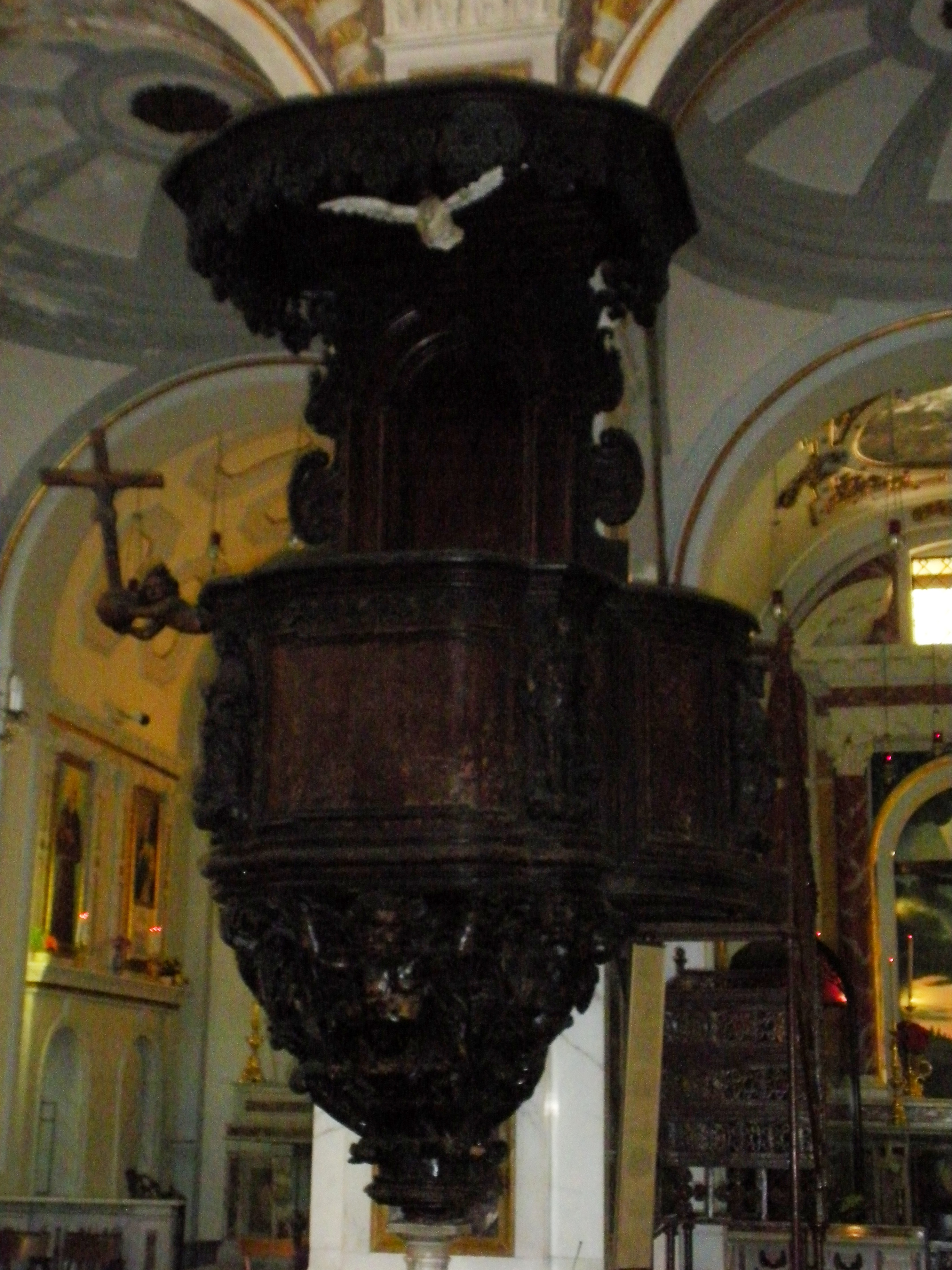 The Basilica of Santa Maria a Pugliano, Ercolano: the wooden pulpit of 1628